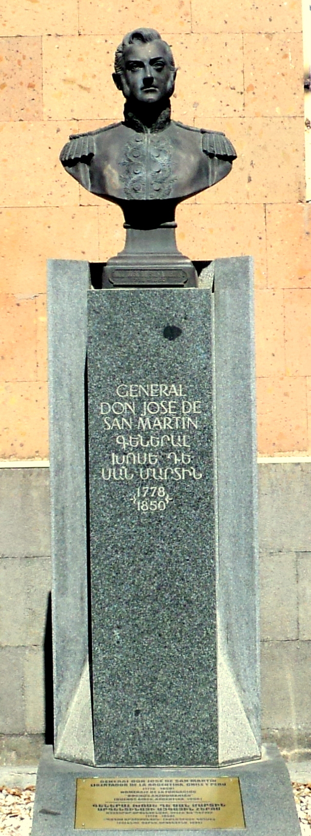 Գեներալ Խոսե դե Սան Մարտին Արգենտինայի ազգային հերոս Գտնվում է Արգենտինական դպրոցի դիմաց, Բաղրամյան պողոտա